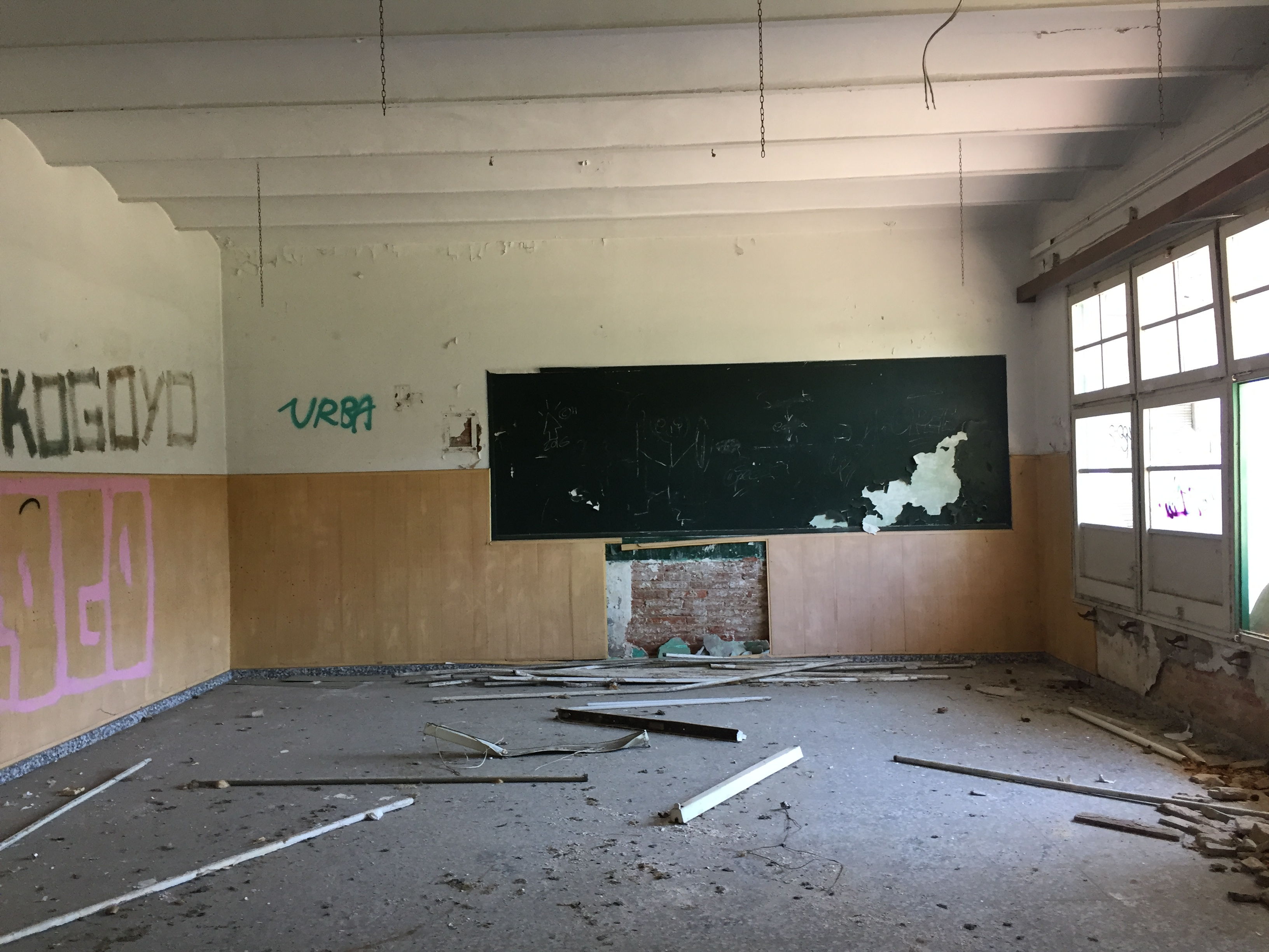 Volem la caserna